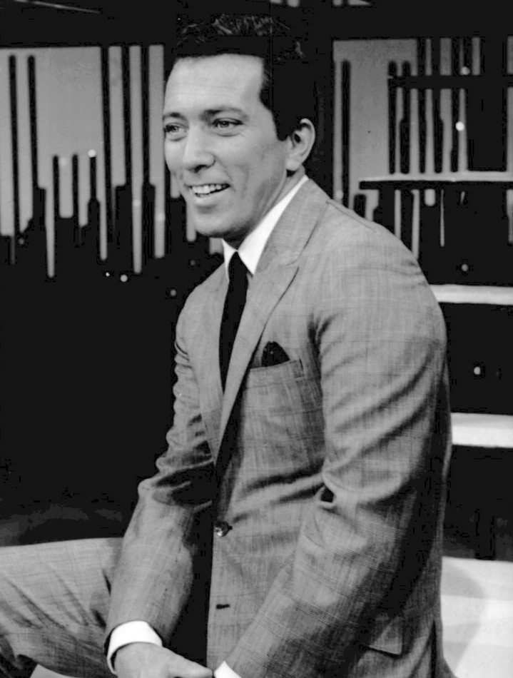 Photo of Andy Williams in 1963 as the host of the Grammy Awards.